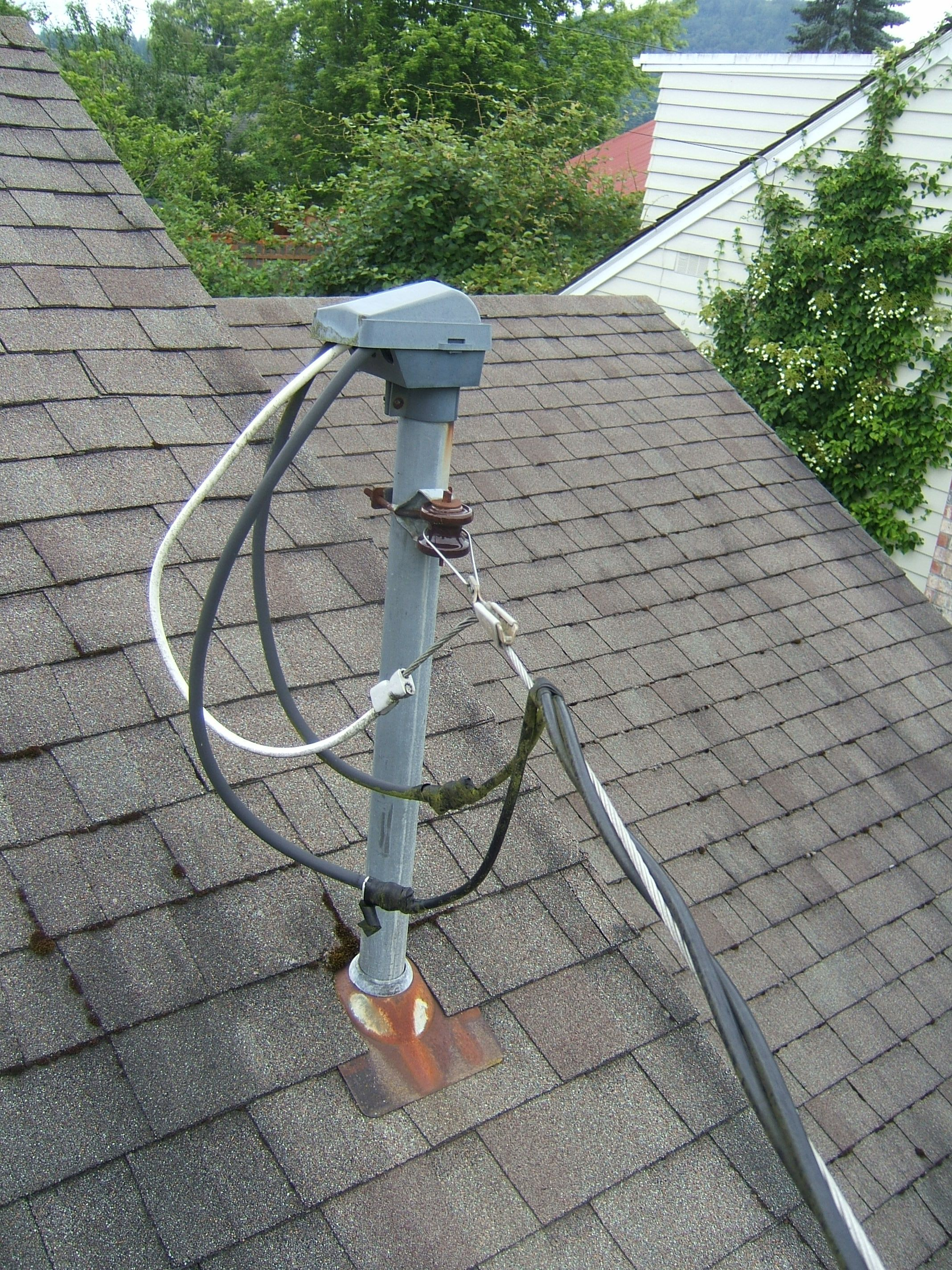 A weatherhead on a residence in Mount Vernon, Washington, USA, where 2×120 V split-phase power is entering the house.